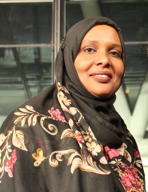 Poet Asha Lul Mohamud Yusuf at London City Hall October 2018